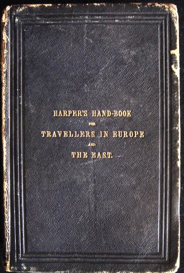 Cover of: Harper's Hand-Book for Travellers in Europe and the East. New-York: Harper & Brothers, 1862.